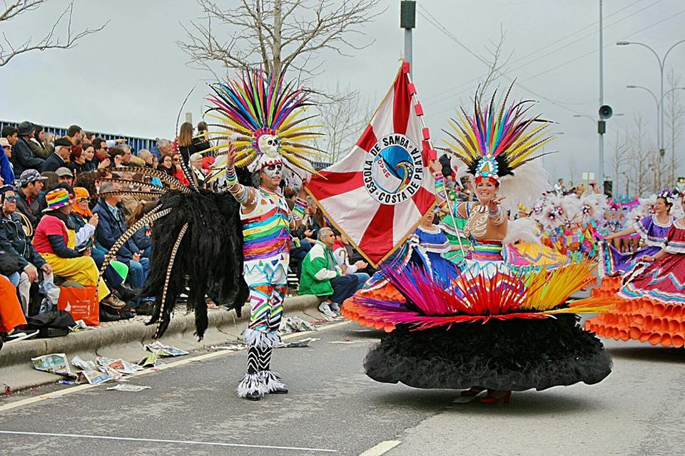 Carnaval de Ovar (Portugal)'s Costa de Prata Flag Bearer